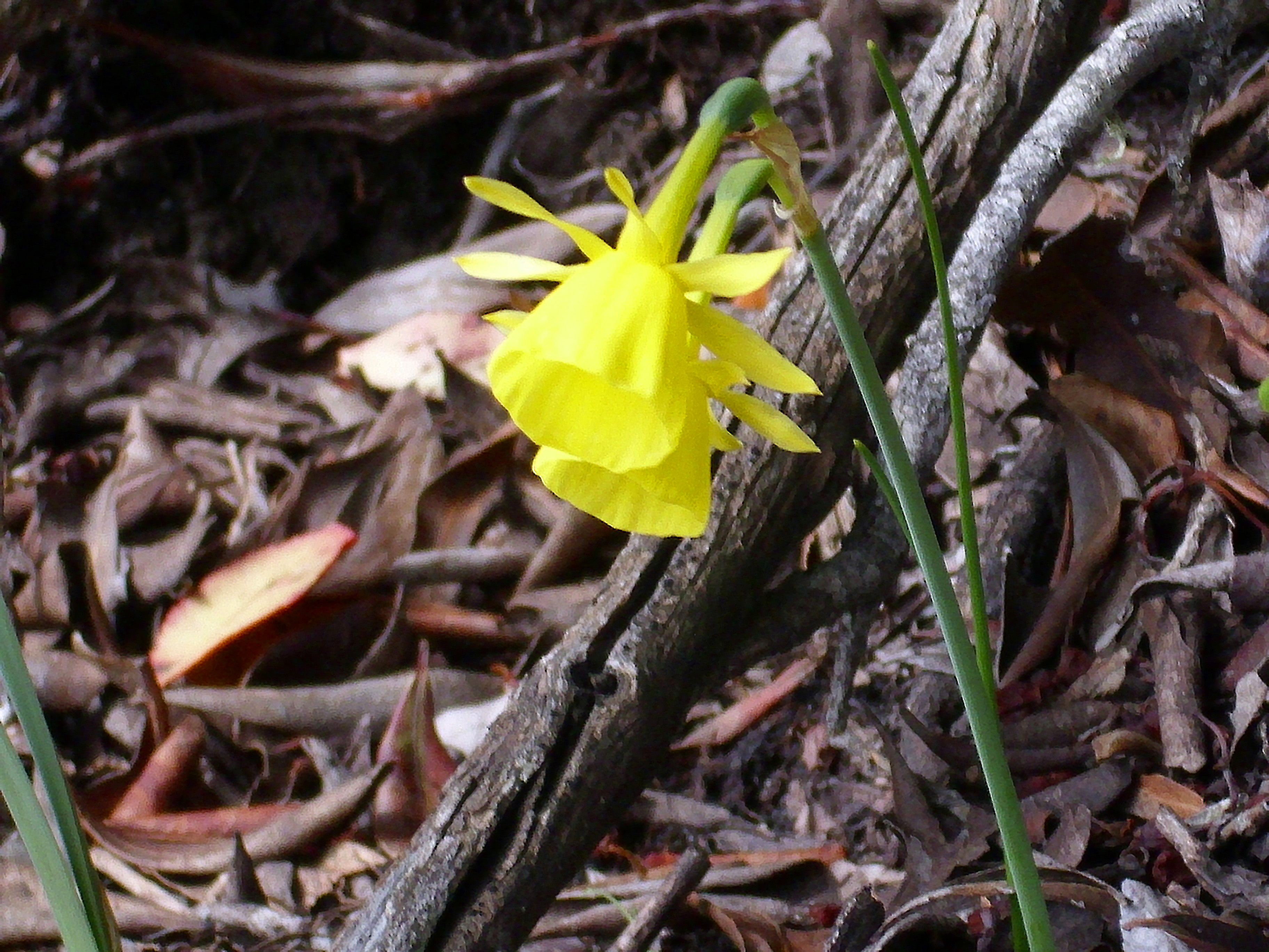 Narcissus assoanus flowers closeup, Sierra Madrona, Spain